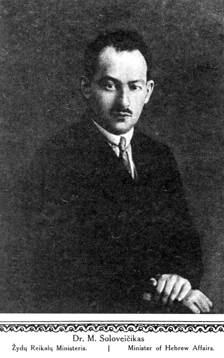 Maksas Soloveičikas, member of Constituent Assembly of Lithuaniaminister